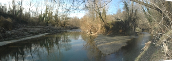 Confluence of the torrent Amaseno with the river Liri at the border of the towns of Arce, Monte San Giovanni Campano and Strangolalli.